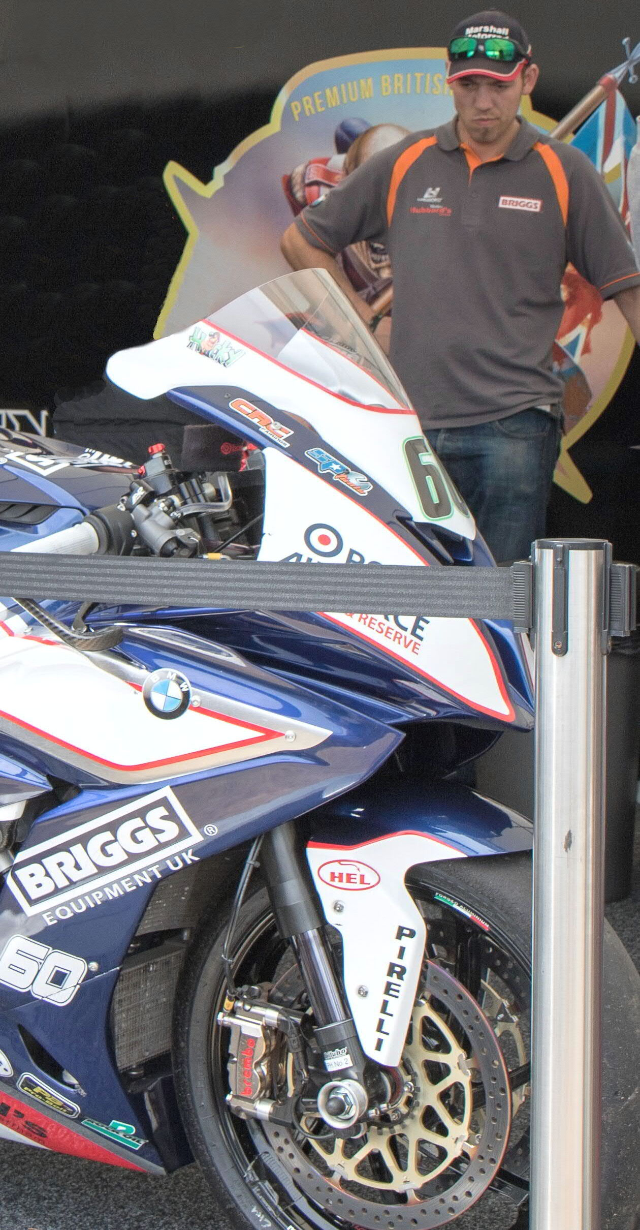 English motorcycle road-racer Peter Hickman with the British Superbike specification BMW S1000RR sponsored by Briggs Equipment and RAF Reserves at 2015 Isle of Man TT races